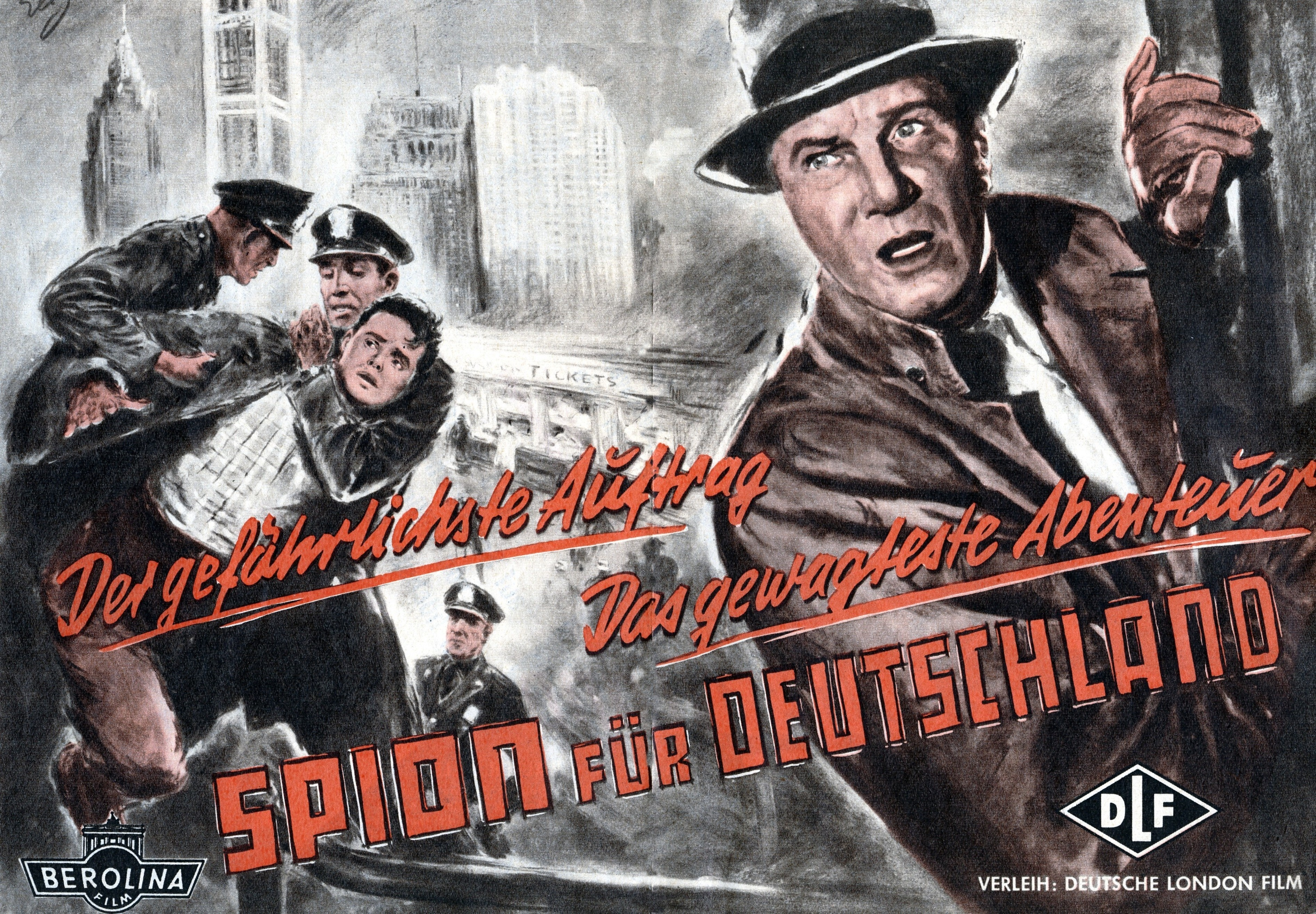 Movie poster for the film Spy for Germany (1956).